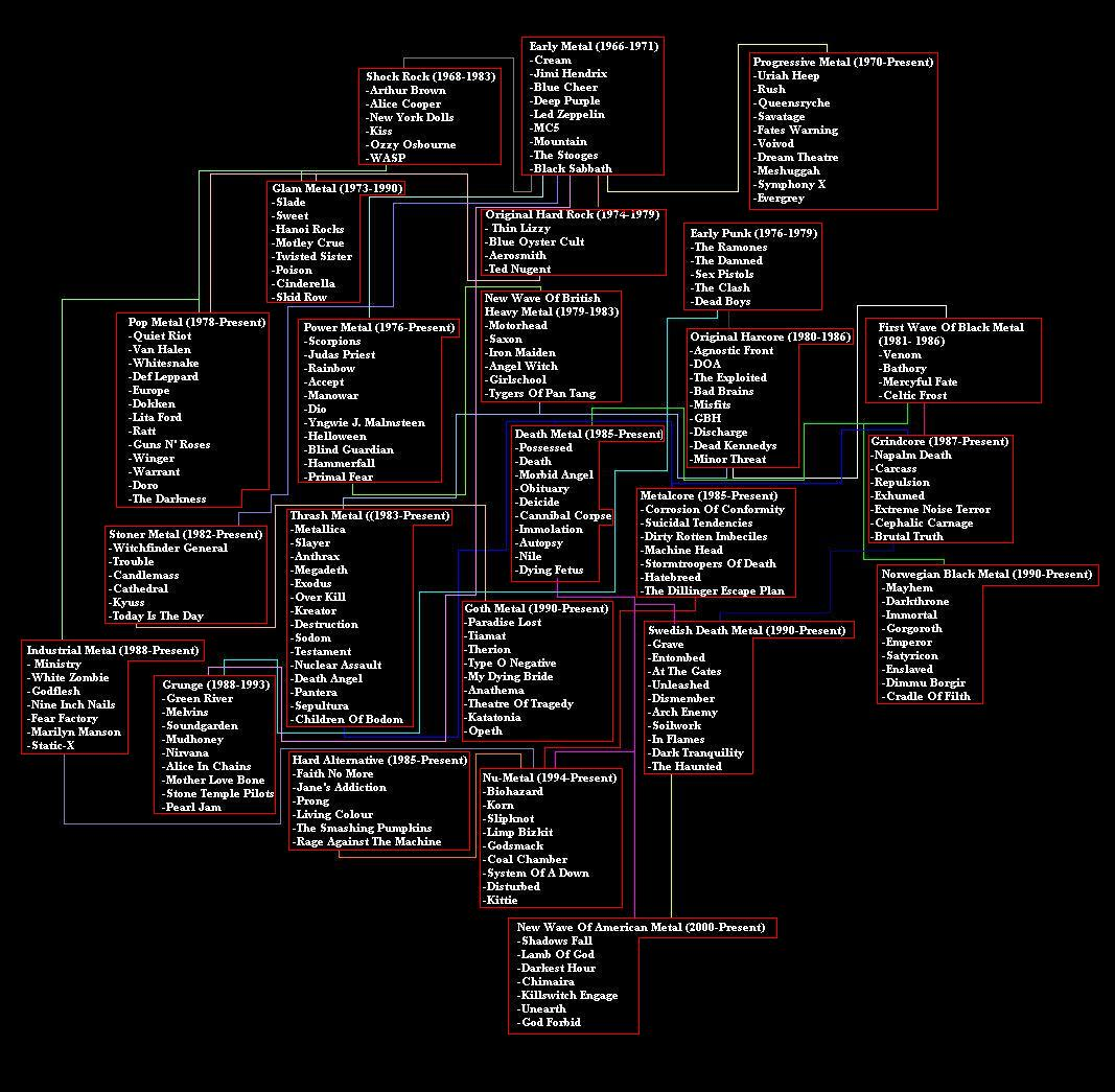 Definitive Metal Genealogy Chart.